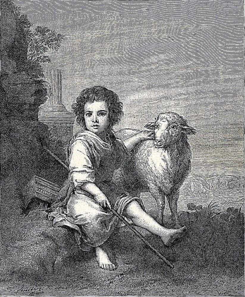 Gravure "The divine shepherd" after Bartolomé Esteban Murillo from the "Gazette des Beaux-Arts" (Paris).